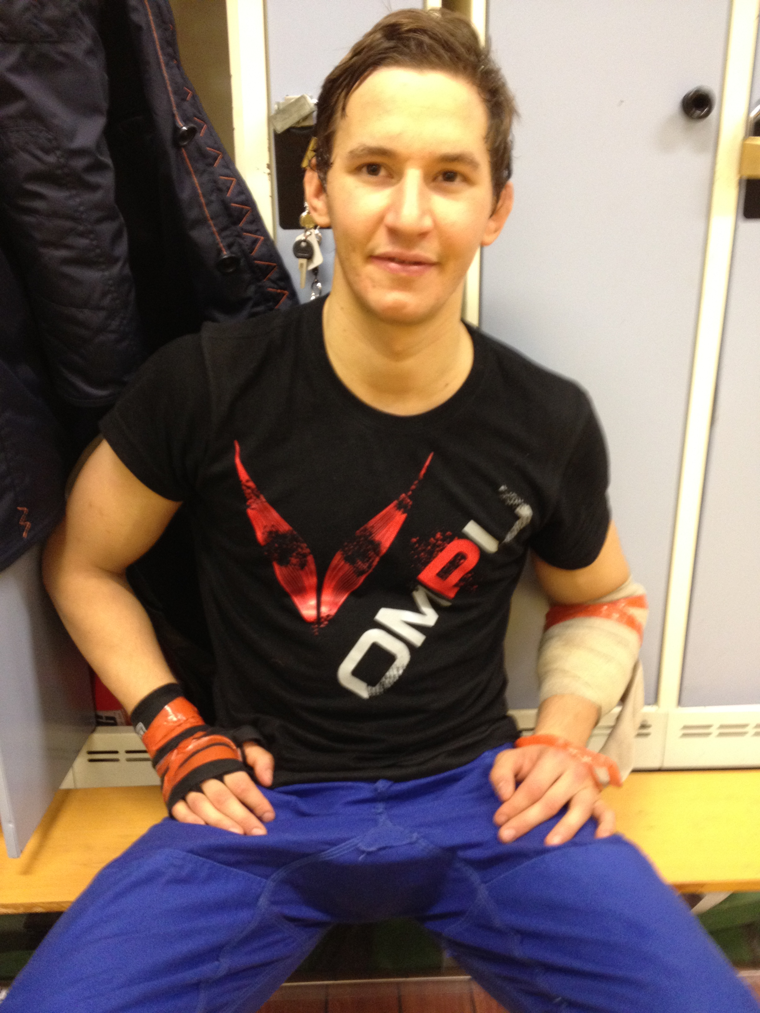 Swedish MMA-fighter Martin Svensson after training at Frontier MMA